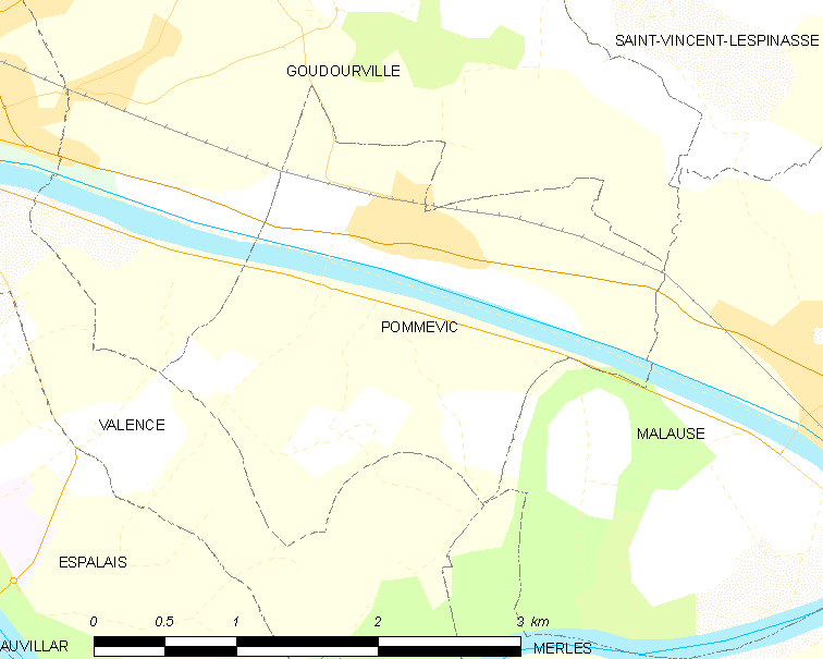 Map of French municipality Pommevic